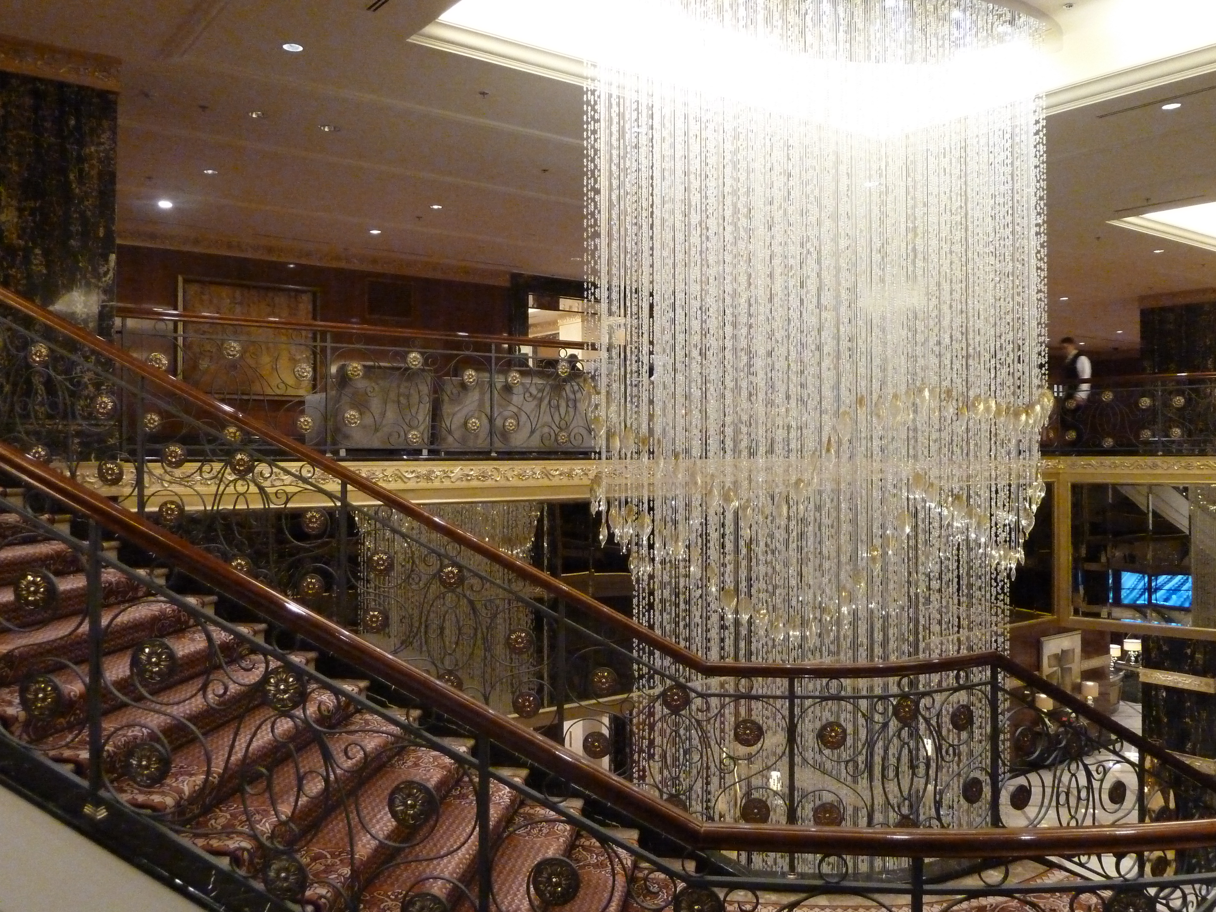 Lotte Hotel, Moscow